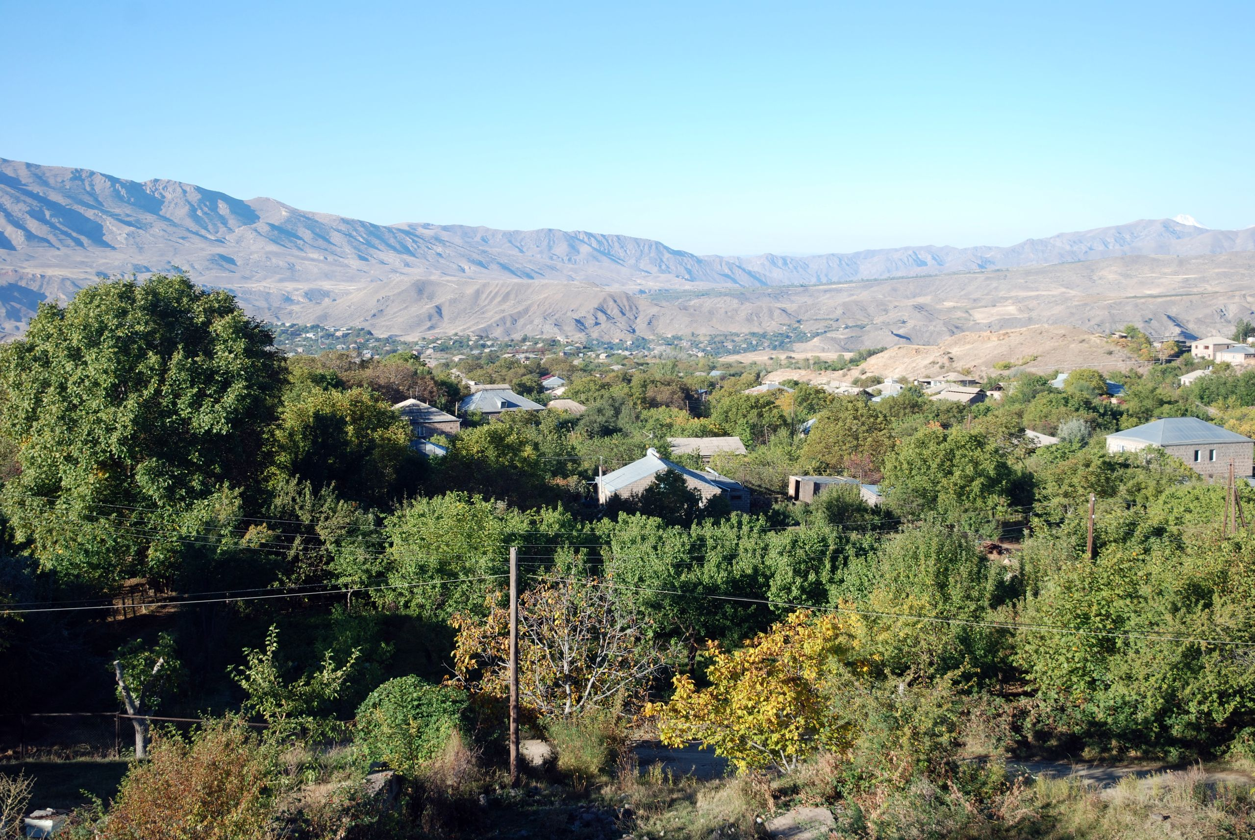 Vernashen